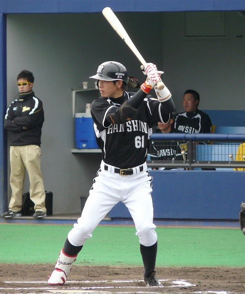 HT-Kenichi-Tagami20120322